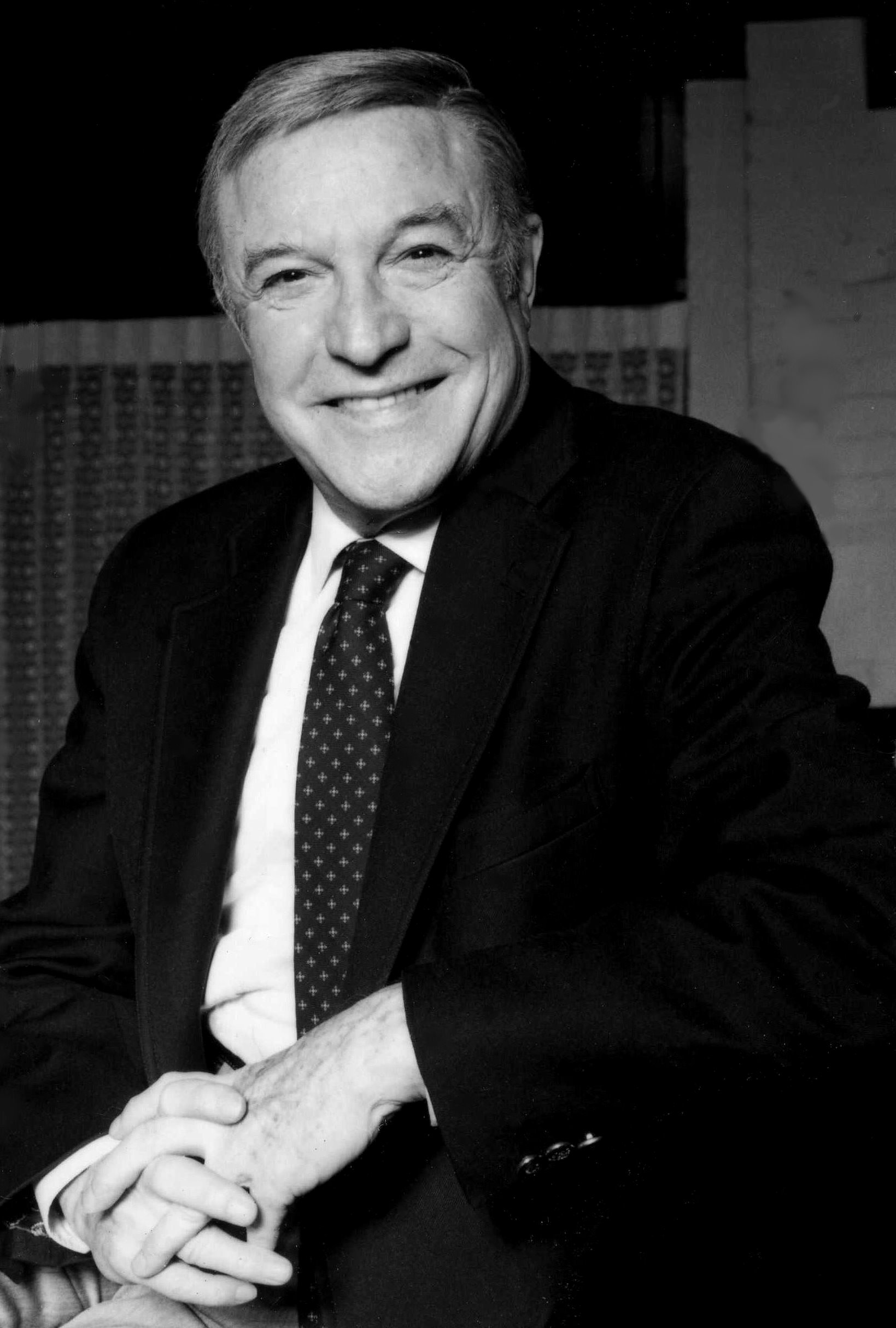 Gene Kelly portrait smiling